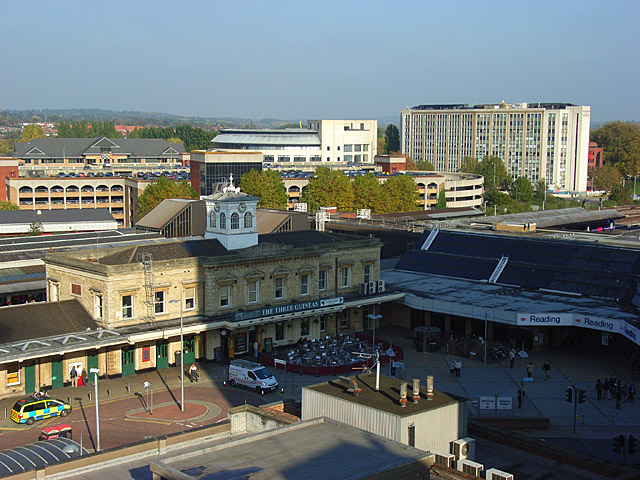 Reading Station The old station entrance to the left is now the Three Guineas pub with the modern entrance to the right. Beyond are offices around Vastern Road and Reading Bridge. The view is from the Garrard Street car park.